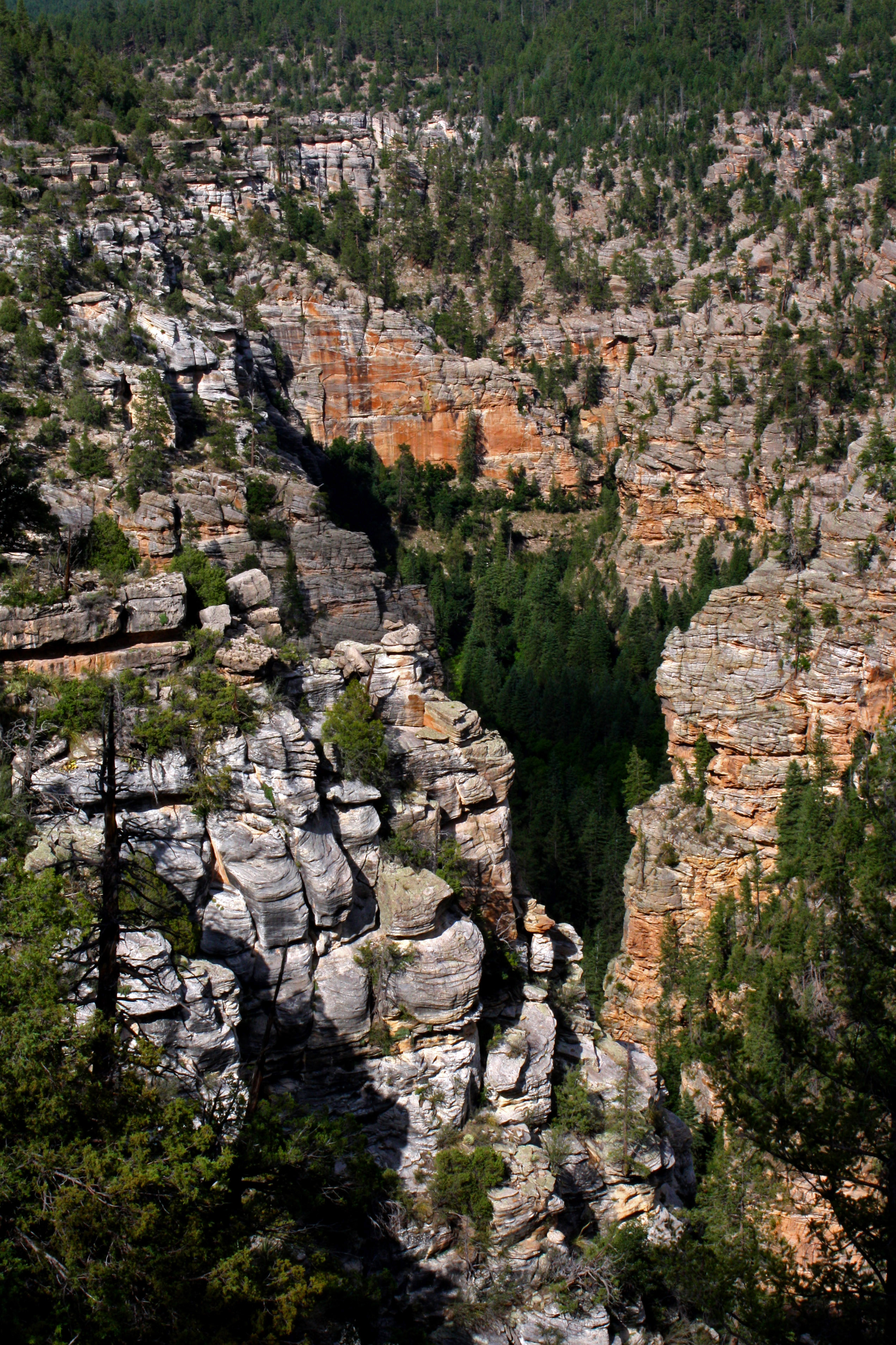 Colorful cliffs mark the West Clear Creek Wilderness as seen from Forest Road 81E. Taken by Brienne Magee on 7-12-09. Credit: USDA Forest Service, Coconino National Forest.